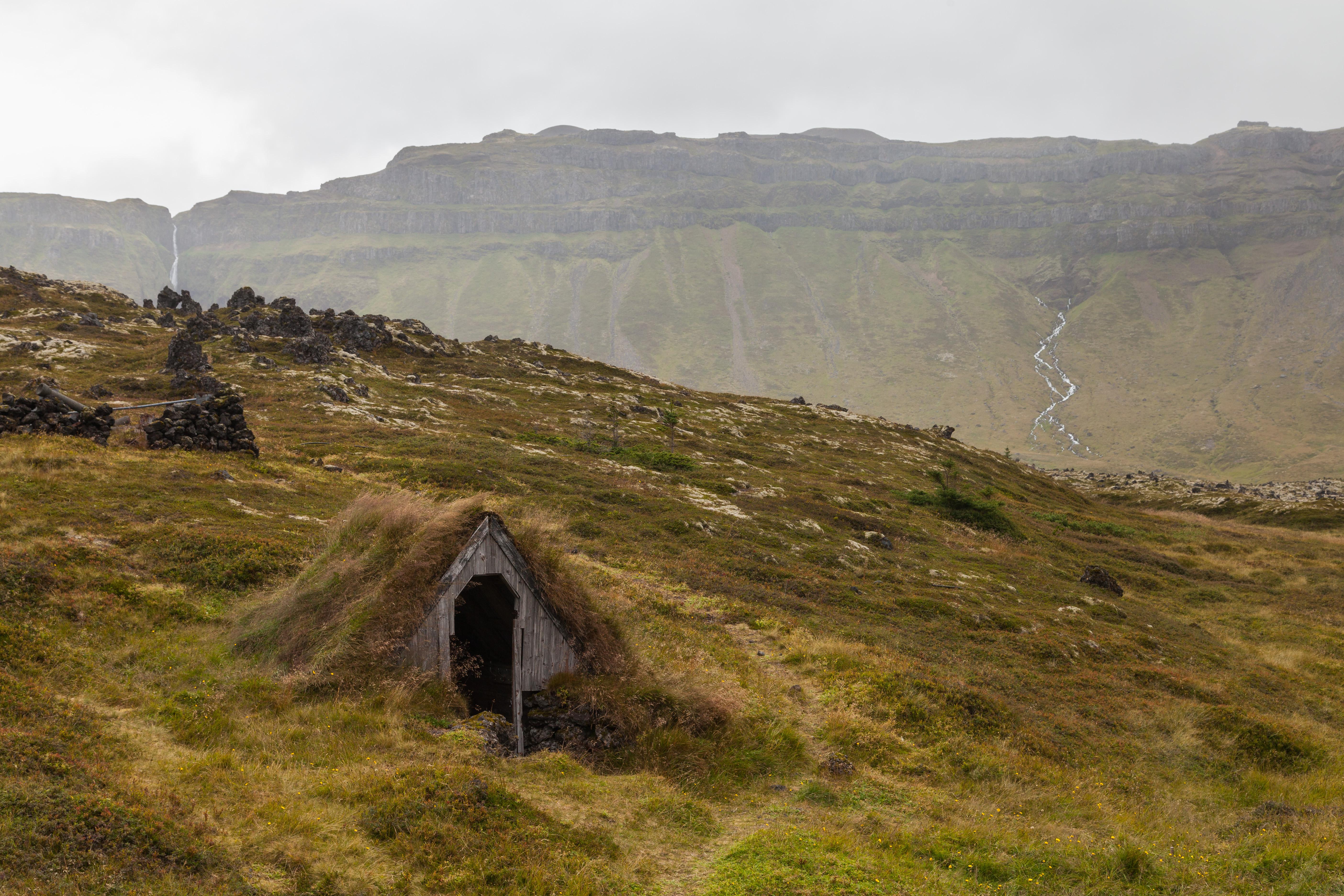 Abandoned Icelandic turf house in the region of Búðahraun, Western Region, Iceland.